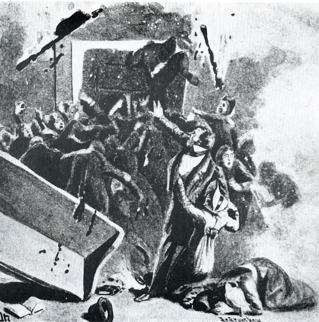 Grue Church Fire, 1822. Drawing by Andreas Bloch (1860-1917)